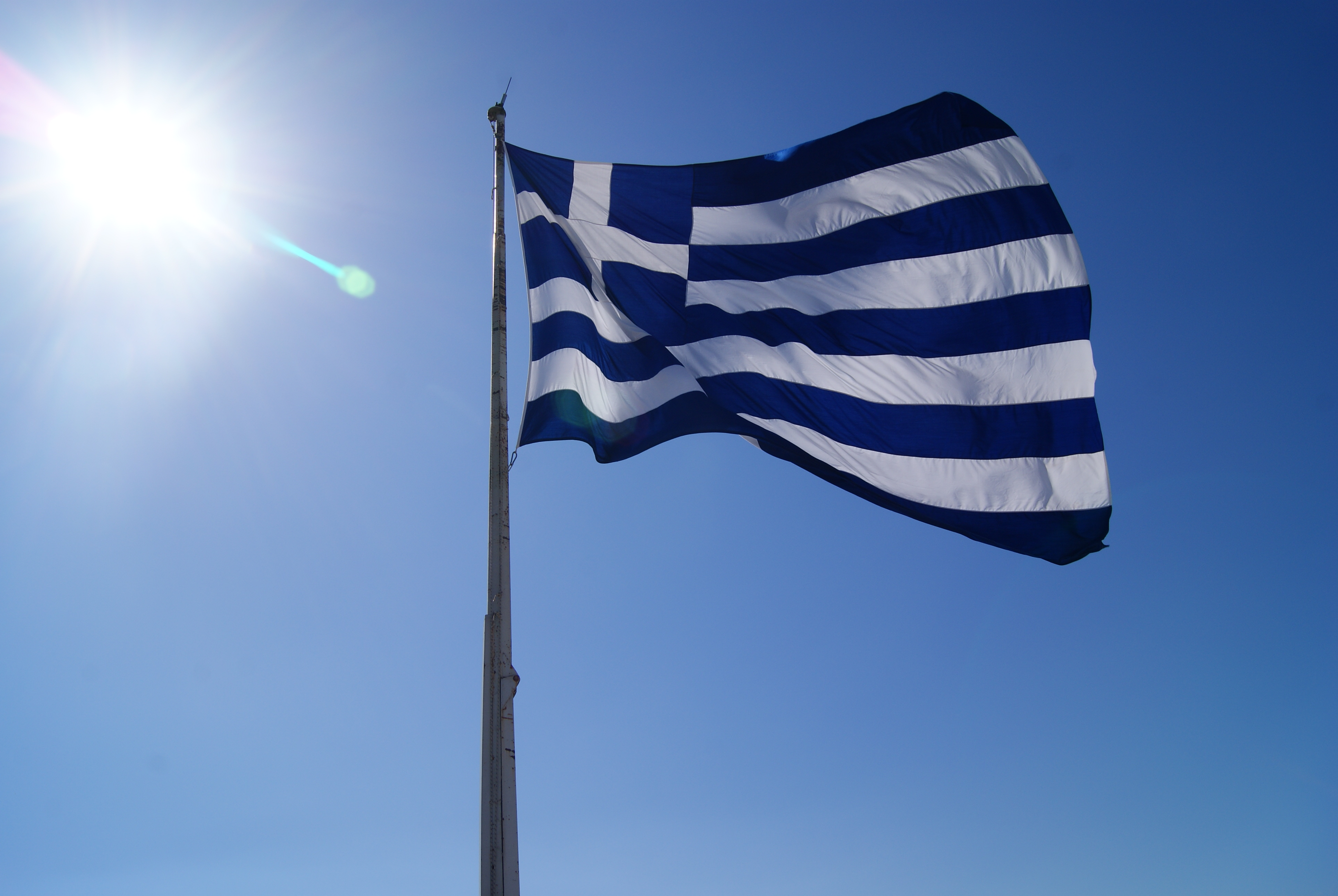 Processed with VSCOcamStartup Stock PhotoStartup Stock PhotoStartup Stock PhotosProcessed with VSCOcamStartup Stock PhotoProcessed with VSCOcam with hb2 preset